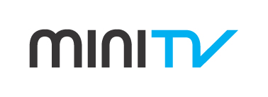 Logo for Norges Mobil-TV